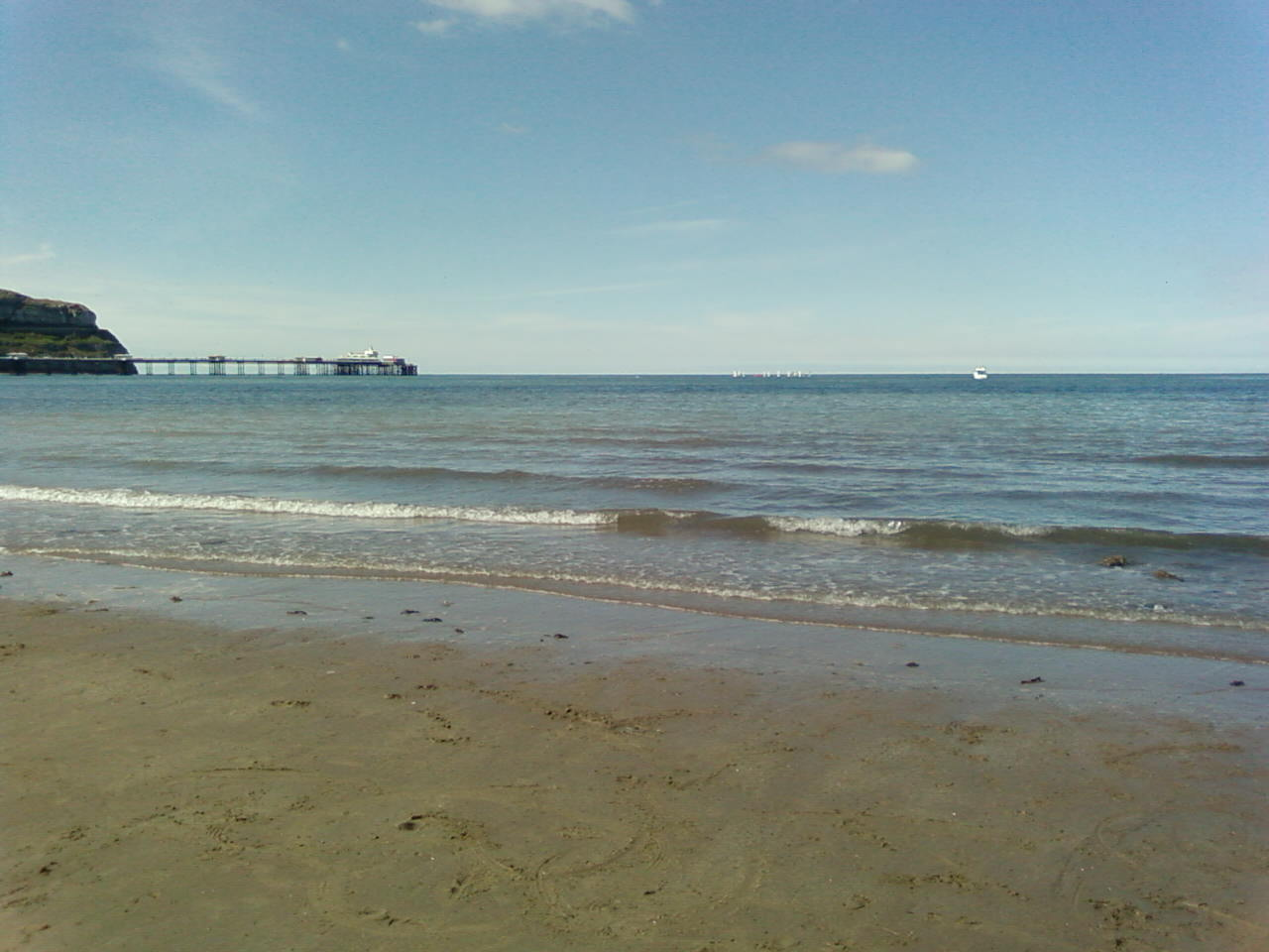 Sea and Pier at Llandudno